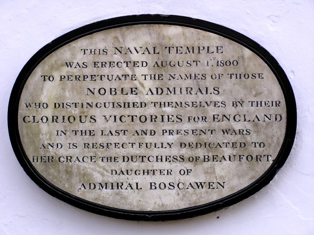 Plaque on the Naval Temple nr Monmouth. See picture 143831 to see it in context.